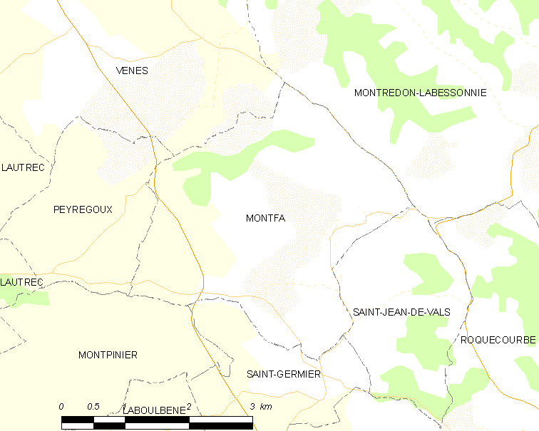 Map commune FR insee code 81177.png - Montfa (Tarn)